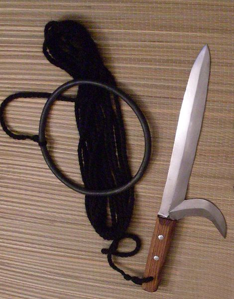 Kyoketsu shoge